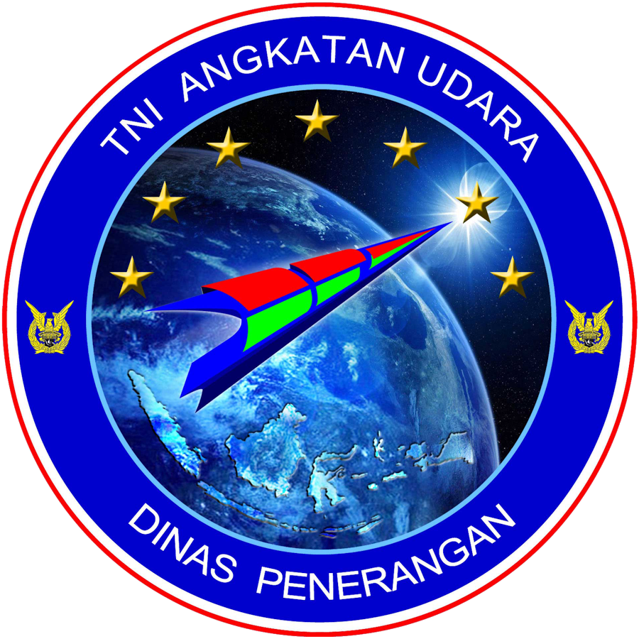 Logo of Information Agency of Indonesian Air Force (2020).